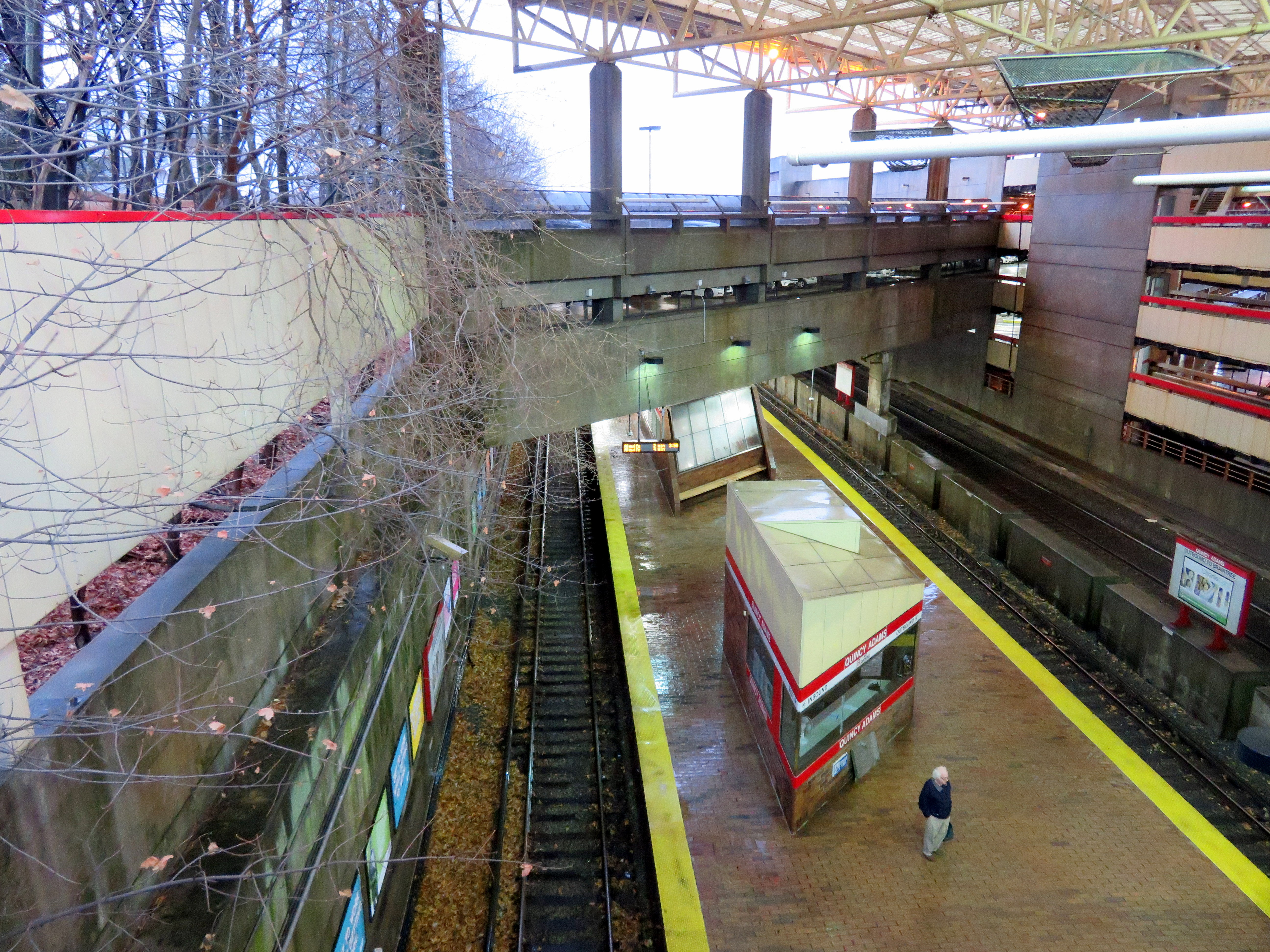 Quincy Adams station in December 2018